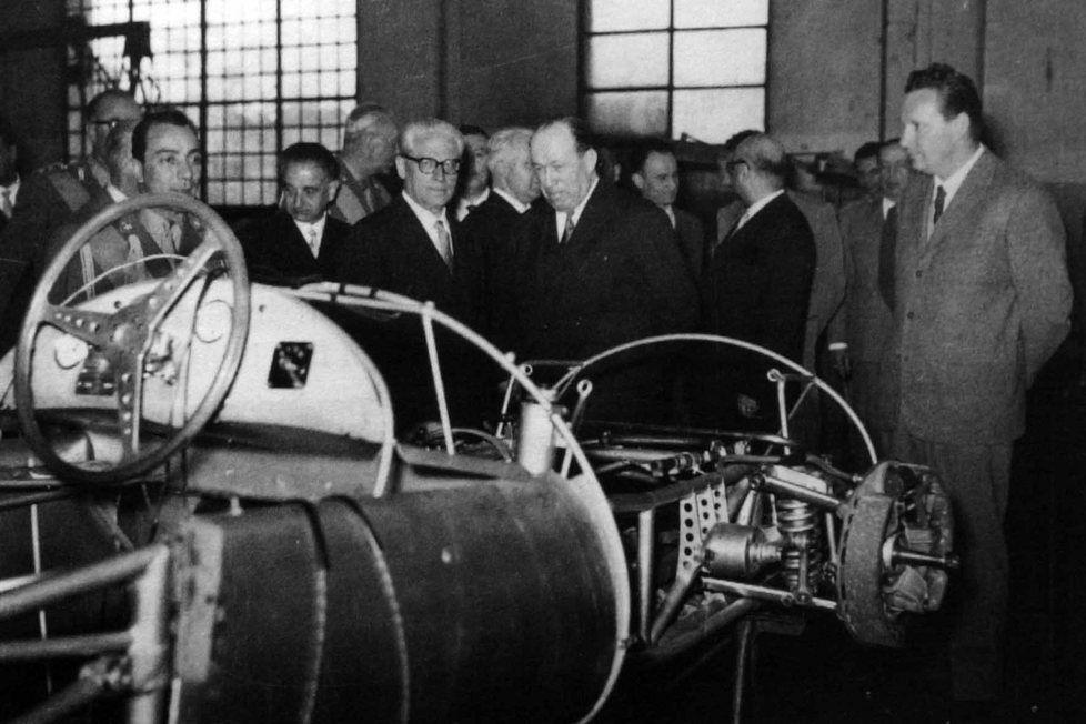 Maserati people. In the middle, a couple of important people with Adolfo Orsi at the right of the bespectacled fellow. His son Omer Orsi is standing to the right, arms folded behind.